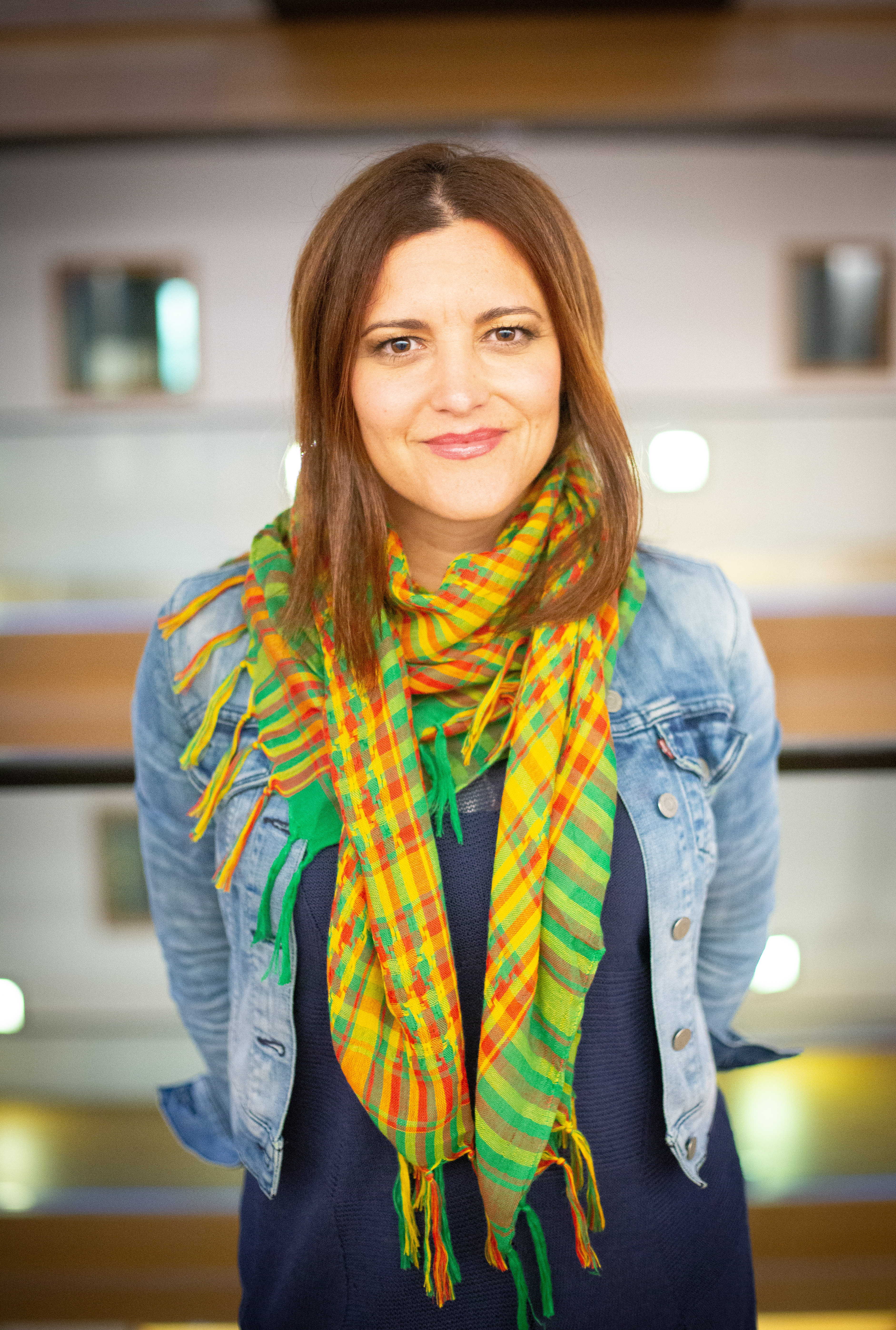 This week in #Eplenary our MEPs showed their solidarity with the Kurdish people #Rise4Rojava